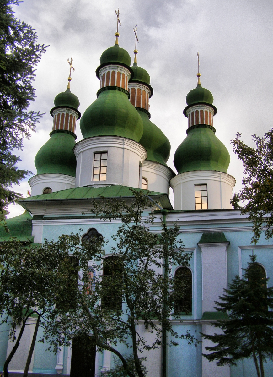 Trinity Church of the Kitaevo monastery in Kiev